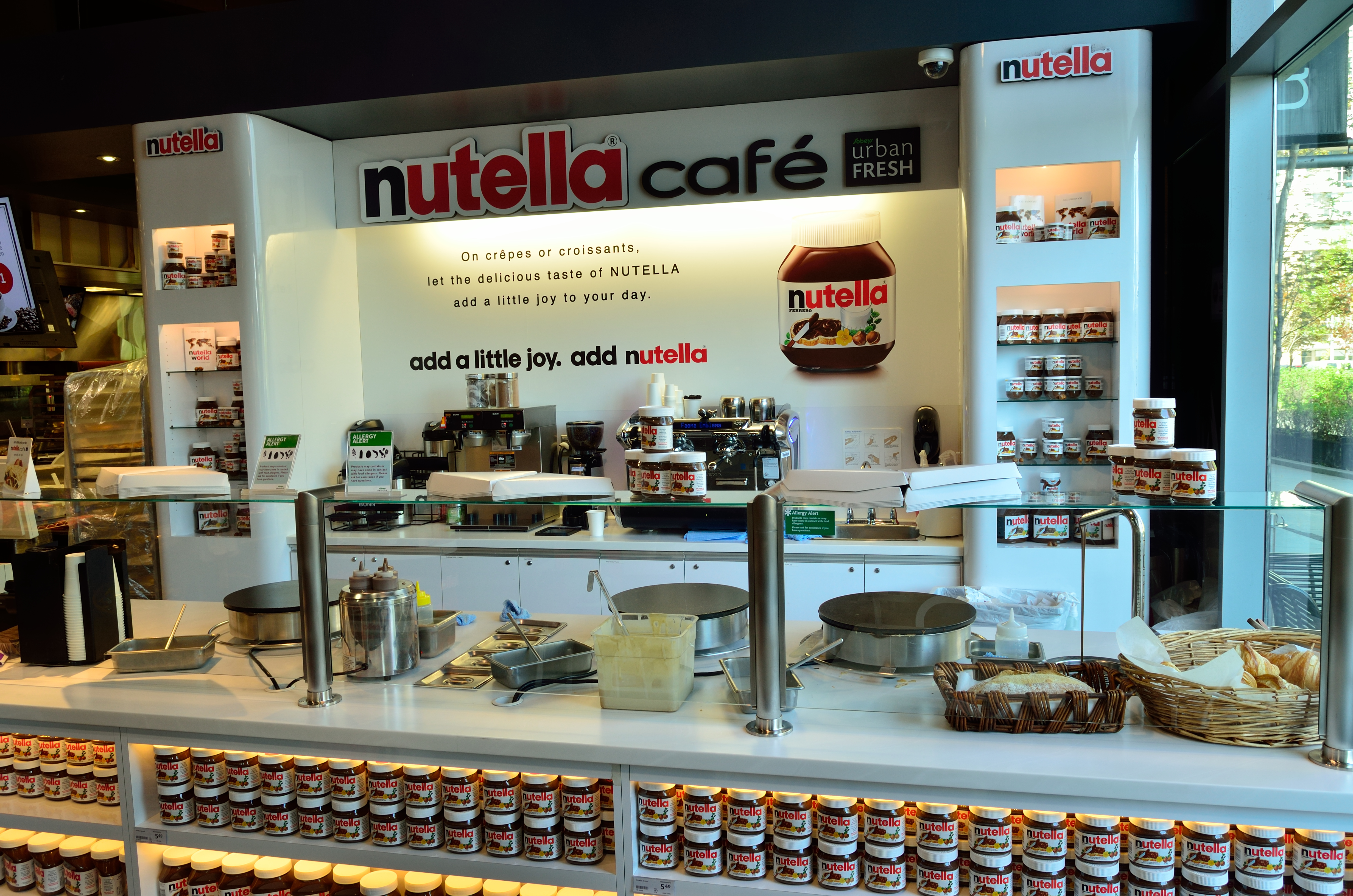 Nutella Cafe